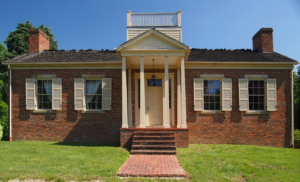 Col. William Jones House, Jones Unit of Lincoln State Park, Indiana, USA. I had to lean way back into a clump of bushes to get the whole house just barely in frame.